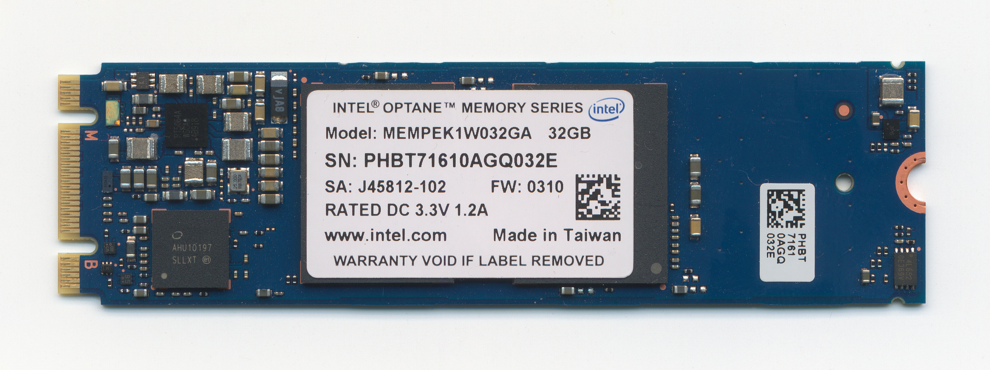 An Intel Optane Memory Series 32GB solid-state drive using 3D XPoint technology. Model number MEMPEK1W032GA.